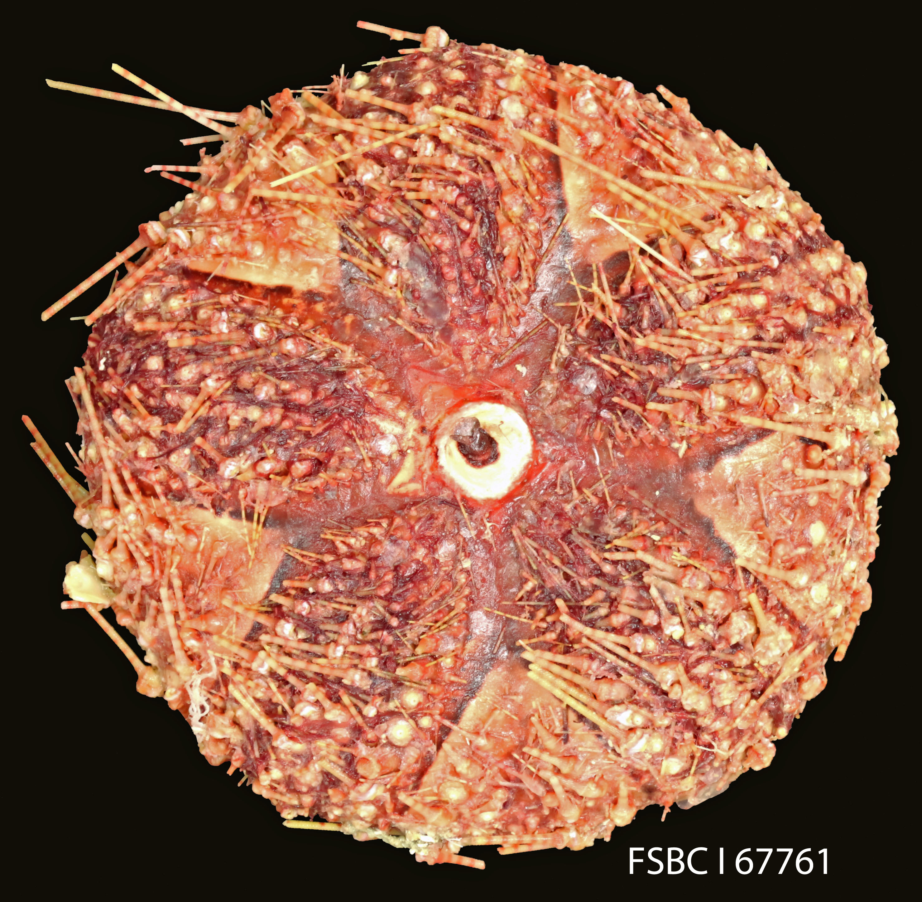 Dried test of Astropyga magnifica